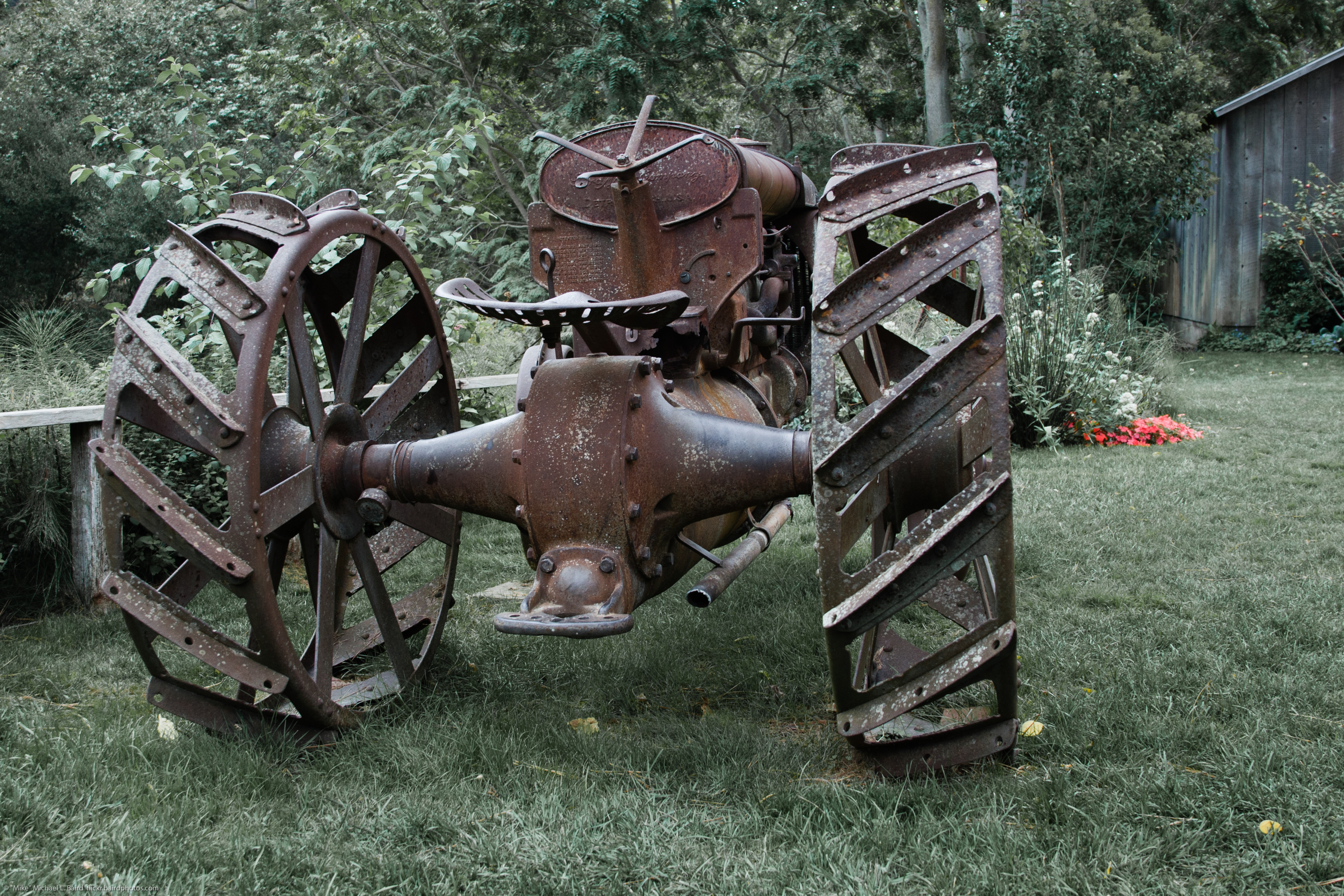 Old Fordson (Model F) tractor at See Canyon Fruit Ranch on See Canyon Road off Prefumo Canyon Road, San Luis Obispo, CA, USA. 04 October 2010. On a visit to several apple farms to scope out a possible Digital Photo Walk. – Photo by "Mike" Michael L. Baird, mike {at} mikebaird d o t com, ; Shooting a Canon EOS 1D Mark III 10.1MP Digital SLR Camera, Canon EF 28-135mm f/3.5-5.6 IS USM Standard Zoom Lens for Canon SLR Cameras, with circular polarizer, handheld.